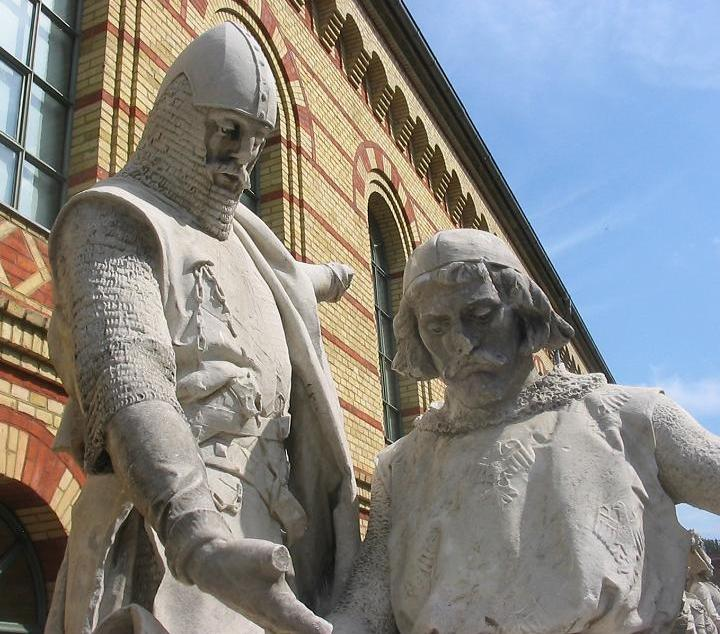 Central double statue of the monument group № 5 from the former Siegesallee in Berlin, commemorating the co-governing margraves of Brandenburg John I (1213–1266), on the right, and Otto III (ca. 1215–1267), on the left. Sculptor: Max Baumbach. The statue was unveiled on 22 March 1900. Shown here in the Spandau Citadel in August 2009, before its conservation-restoration.